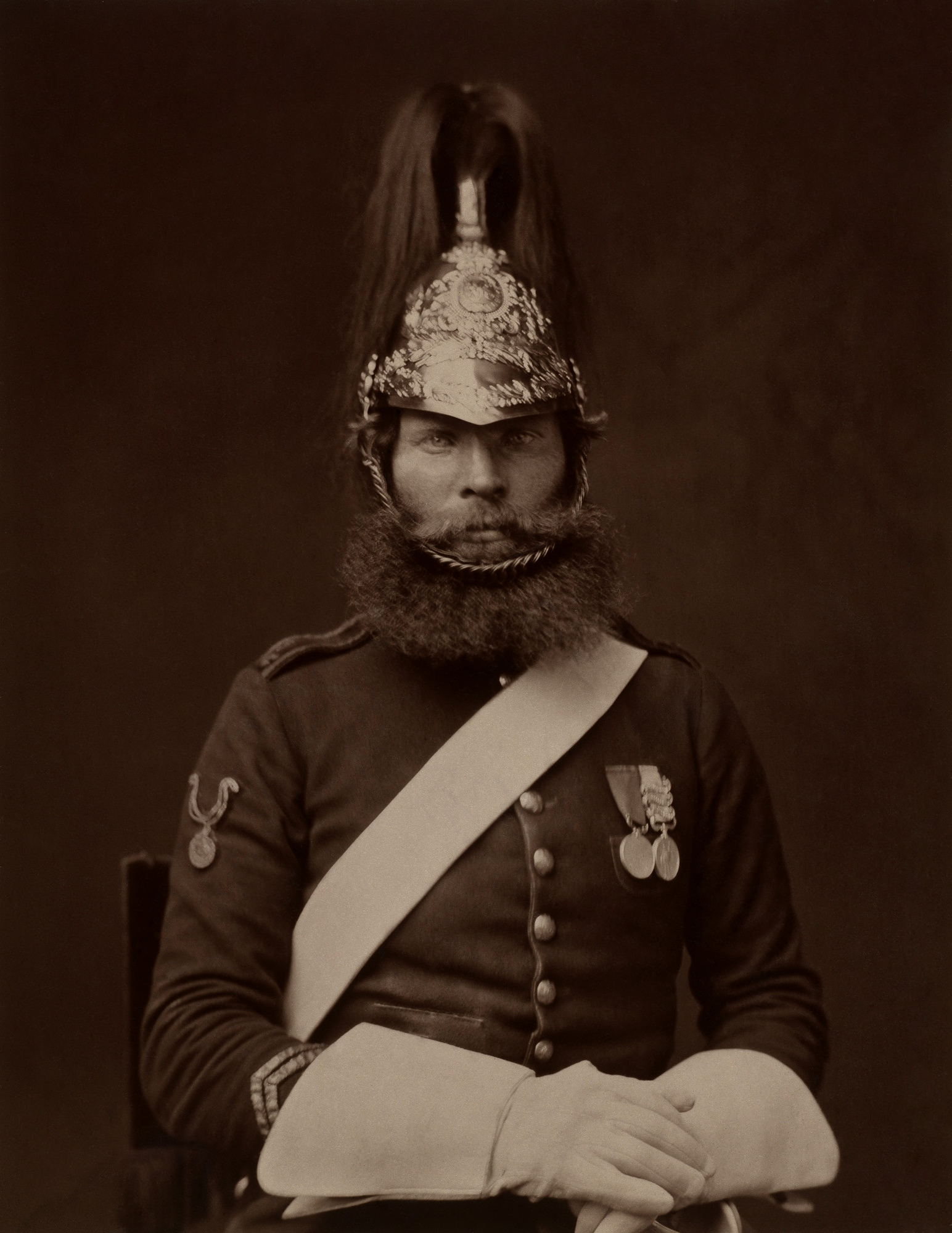 Rough Rider Michael McNamara, Private, 5th Dragoon Guards. Just after the Crimean War, as part of a commissioned set of photographs taken at Aldershot for Queen Victoria. McNamara served at Sevastapol and Inkerman, as well as the charge of the Heavy Brigade in the Battle of Balaklava. He left service as a corporal in 1867.[1] From the collection of Queen Victoria of the United Kingdom. Printed in carbon; 45.5 x 35.5 cm.